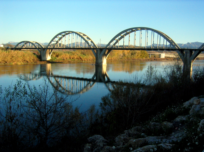 View of Pont d'arcades de Móra d'Ebre bridge (Catalonia) over Ebre river.